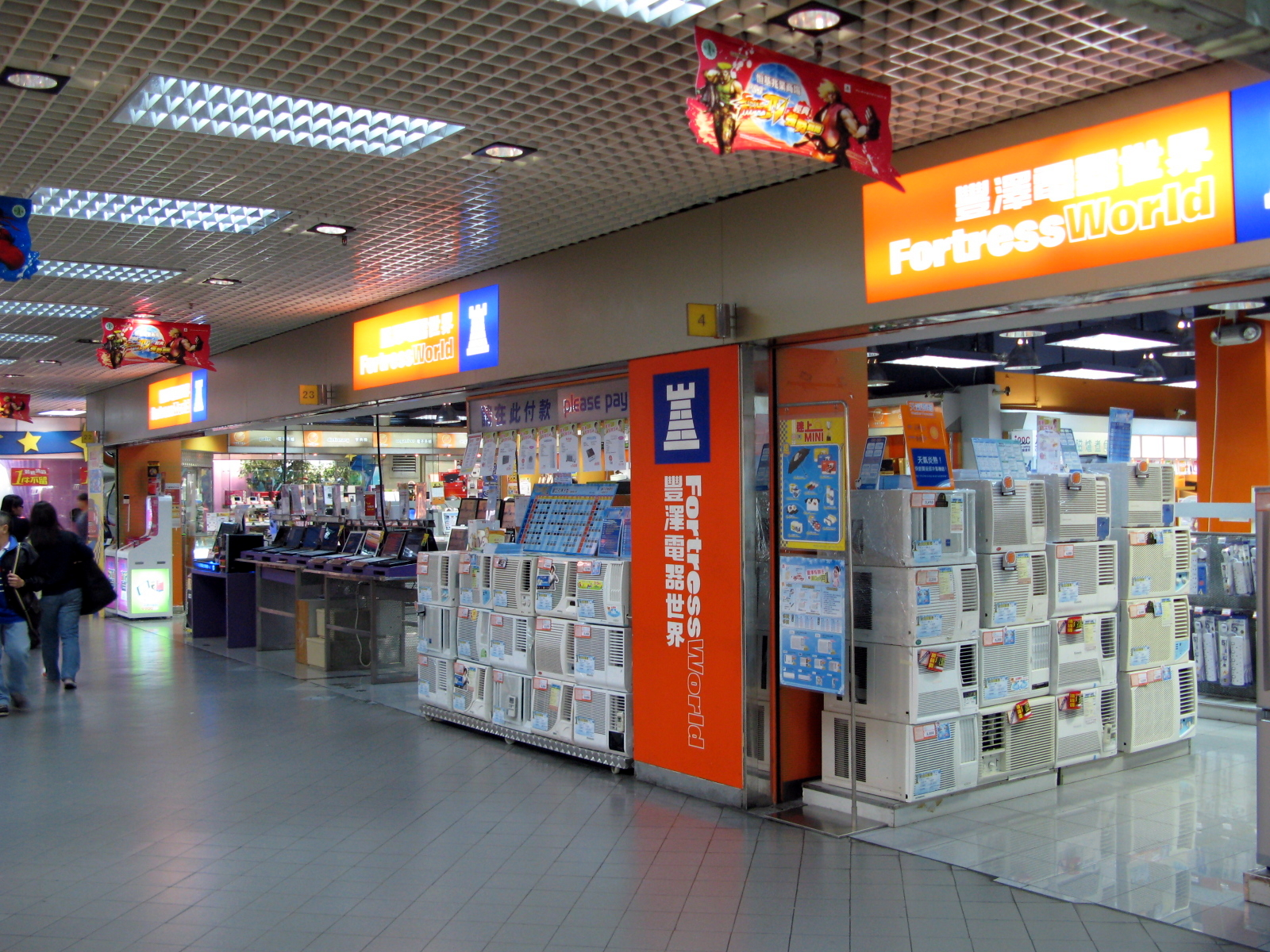 Fortess World in Tuen Mun Trend Plaza